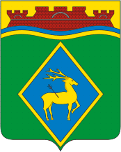 Belaya Kalitva (Rostov oblast), coat of arms